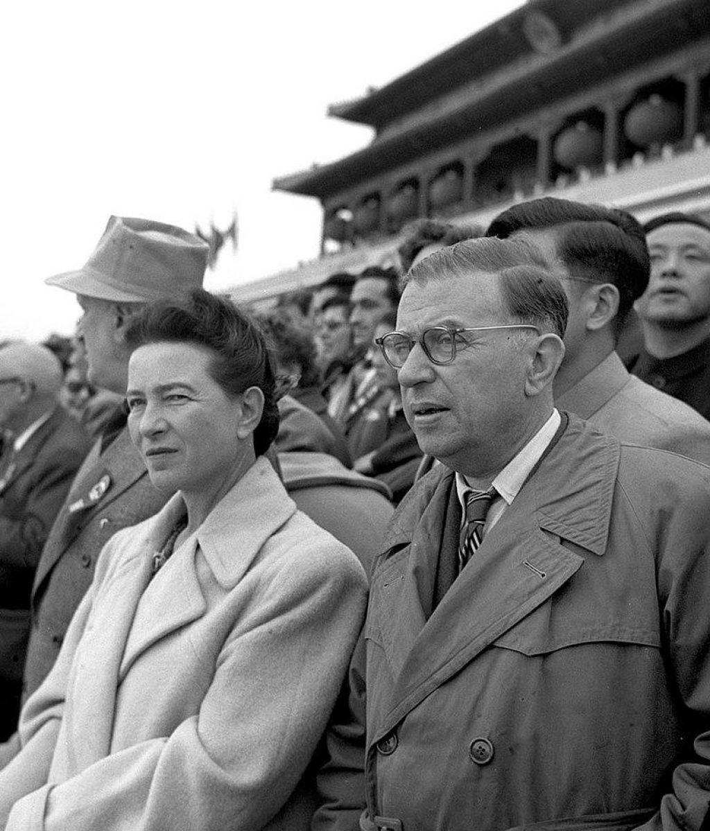 Simone de Beauvoir and Jean-Paul Sartre attended the ceremony of 6th Anniversary of Founding of Communist China in Beijing on 1 October 1955 in Tiananmen square.